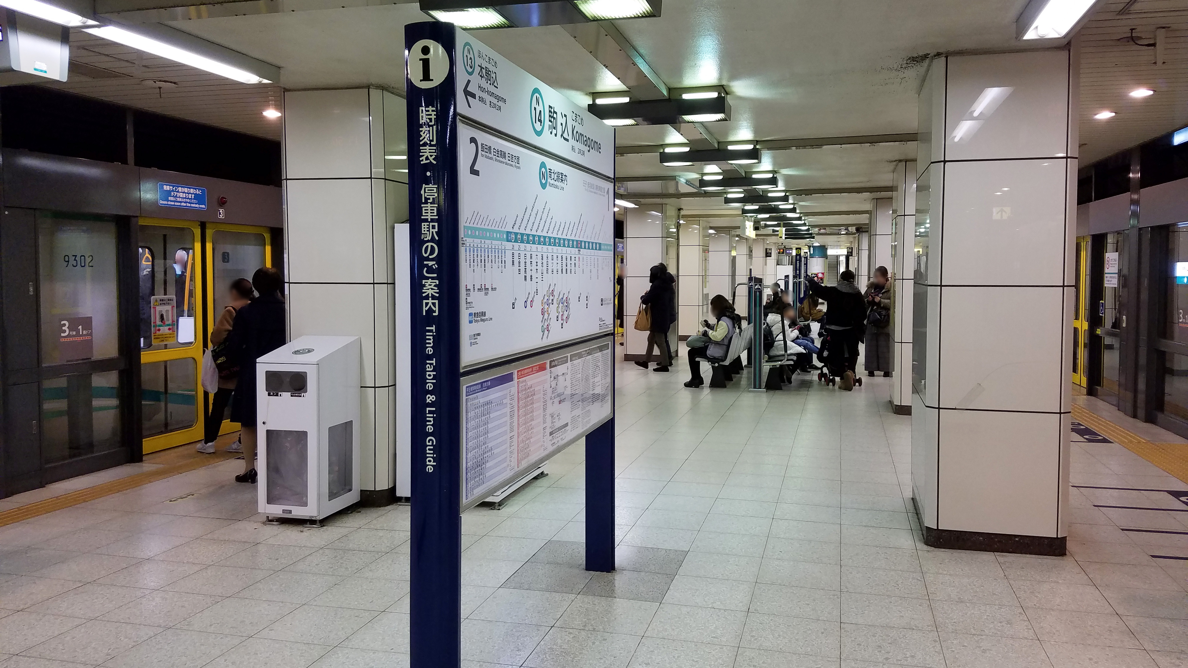 The platform at Komagome Station on the Tokyo Metro Namboku Line in Toshima city, Tokyo, Japan